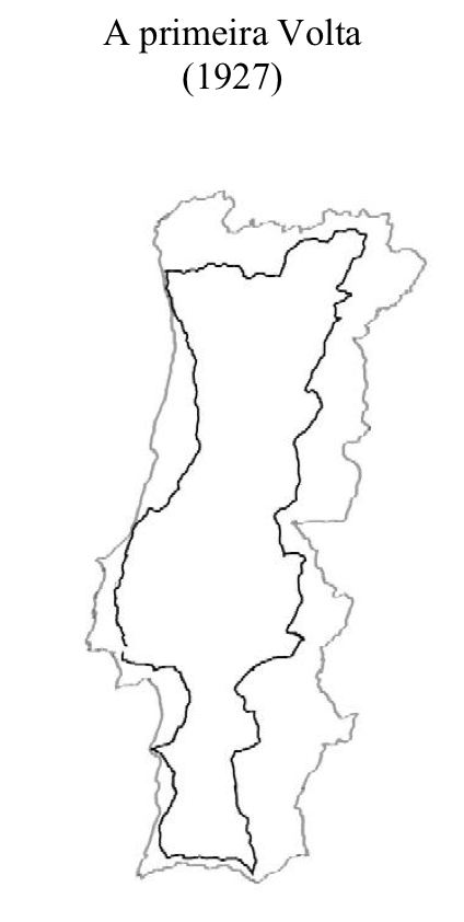 Mapa da Volta 1927